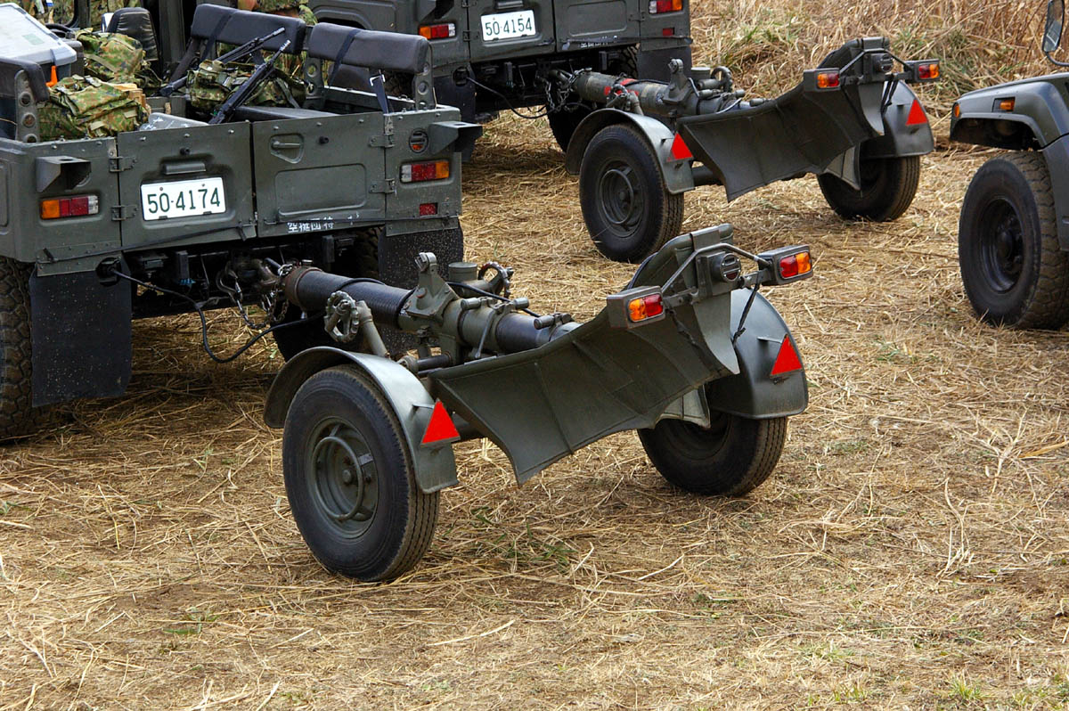 JGSDF 120mm mortar.In Narashino,Japan,JGSDF 1st Airborne Brigade 2008 first drop manuver